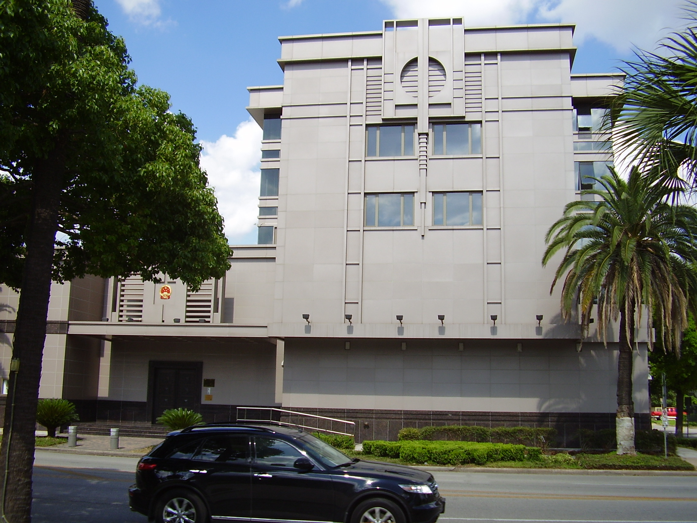 Consulate-General of the People's Republic of China in Houston - 3417 Montrose Boulevard